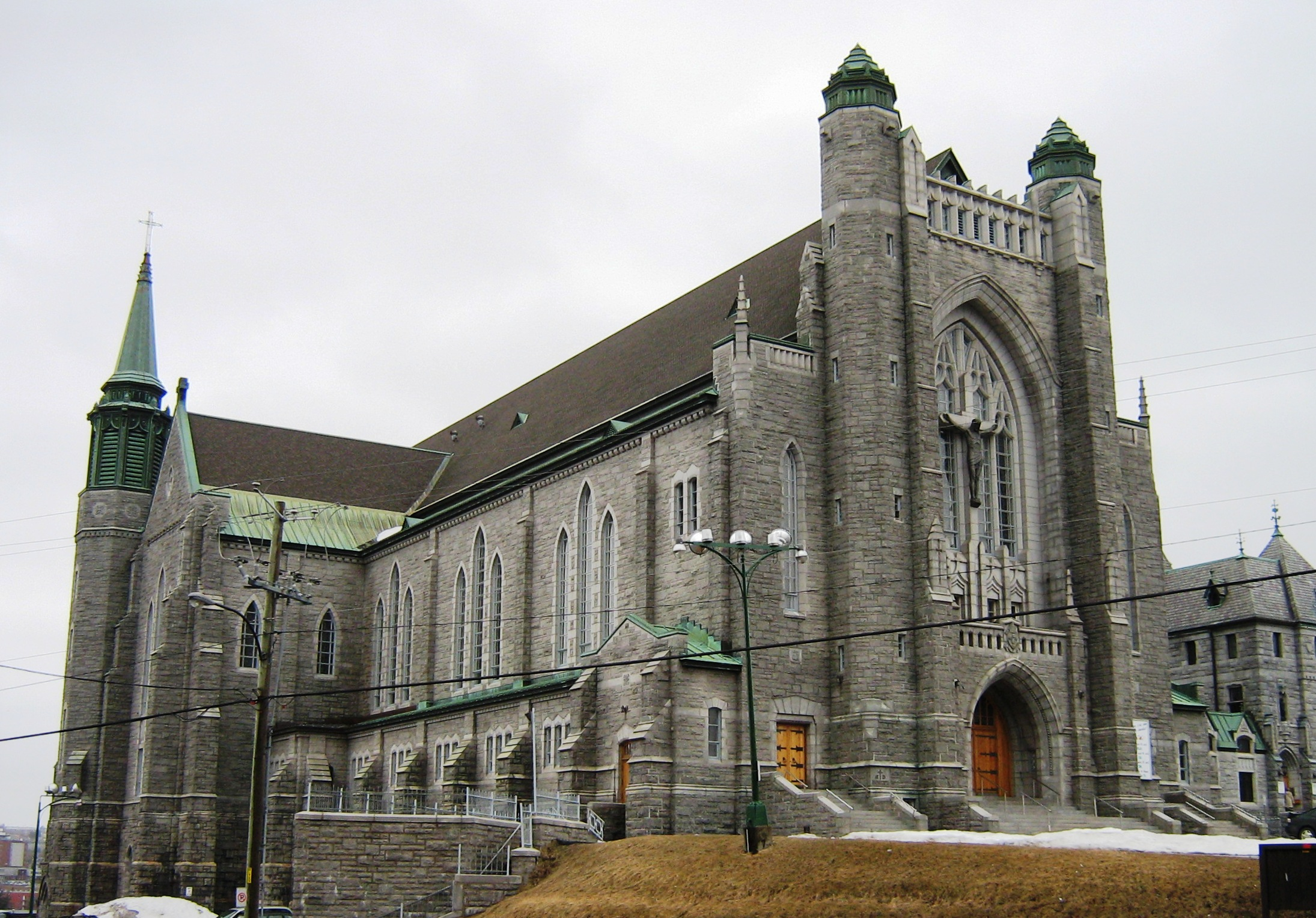 Cathedrale Saint Michel